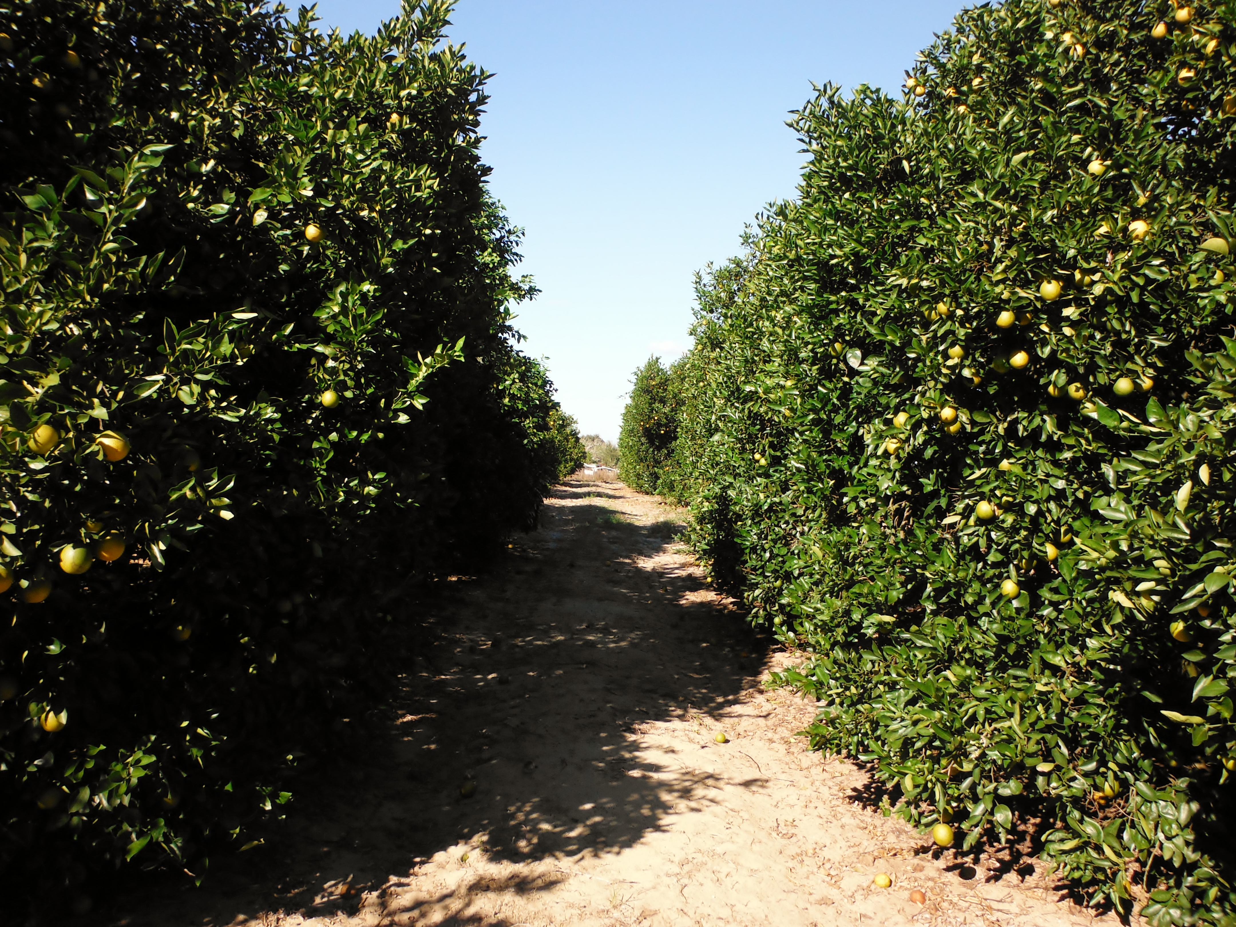 Typical healthy Florida Valencia orange grove, Sebring, FL